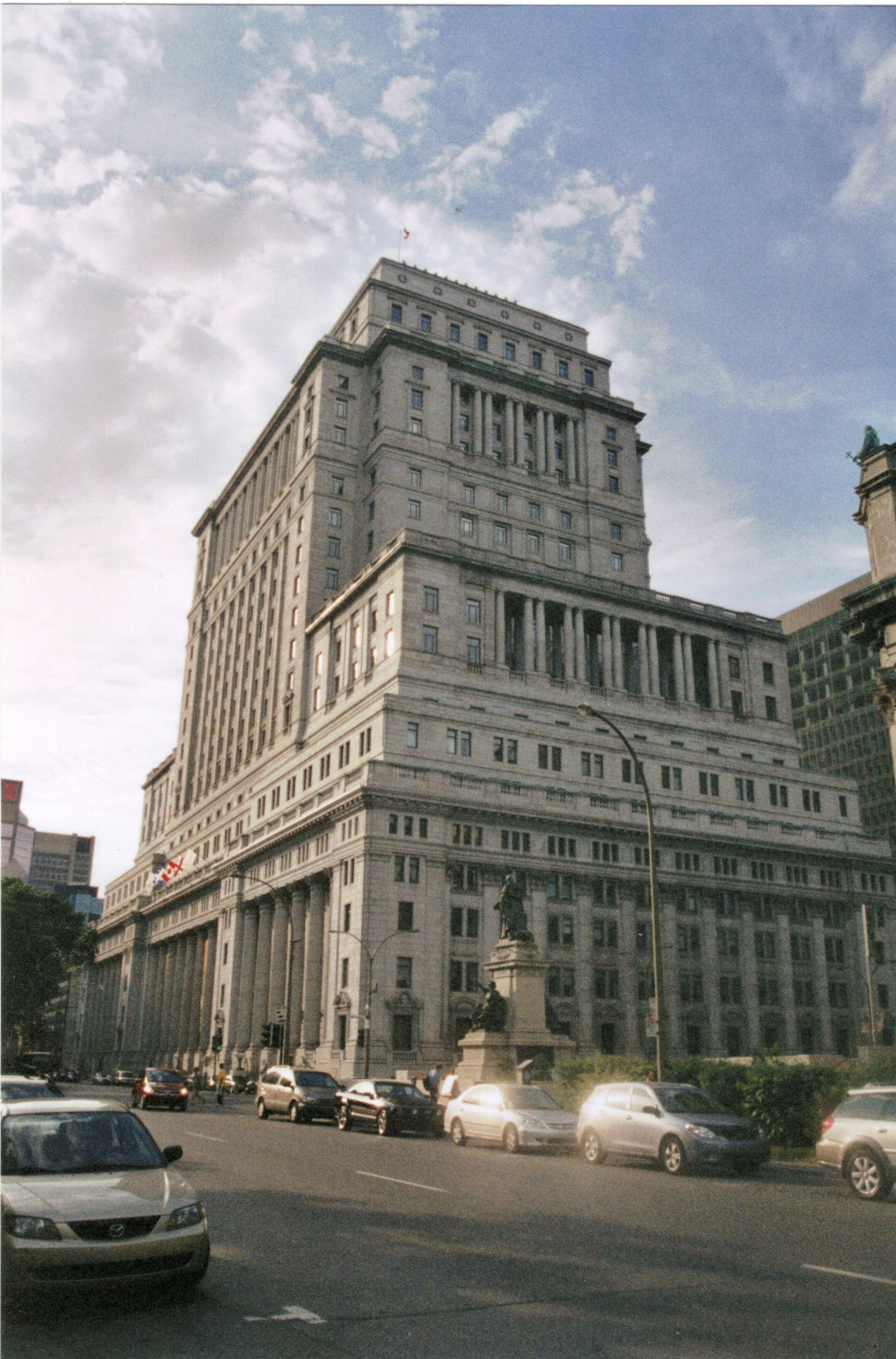 © Steve Brandon. This is a scan of a film photo taken by the uploader (Steve Brandon) in Montreal on June 16th, 2007, with a Nikon F65 camera. Copyrighted Free Use